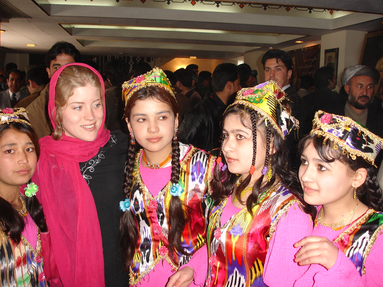 Ethnic Uzbek from Afghanistan.